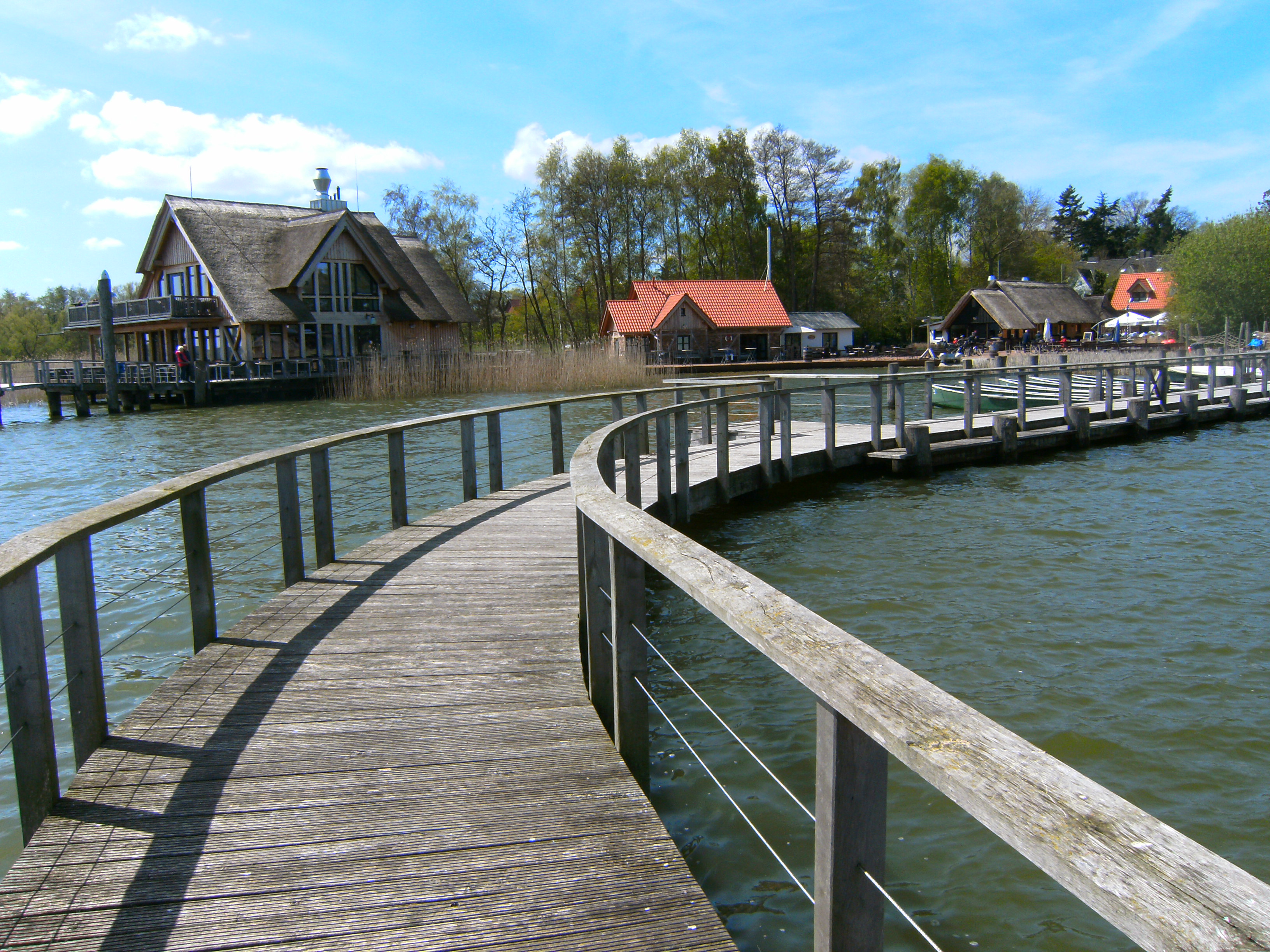 Hemmelsdorfer See (lake), Germany. Fischereihof Hemmelsdorf, way round the harbour: towards the buildings